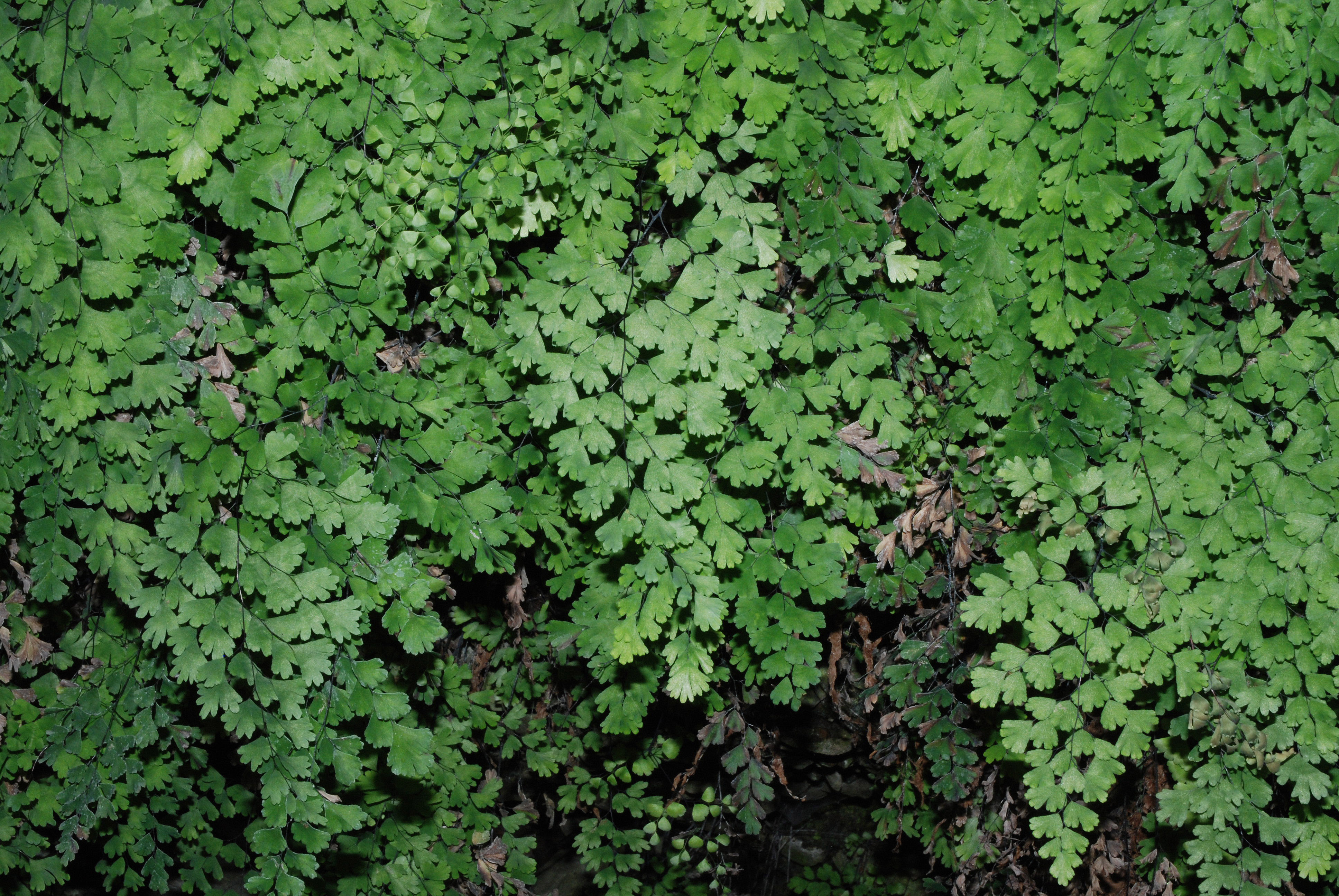 Adiantum capillus-veneris, Barranco de las Angustias, La Palma, Spain